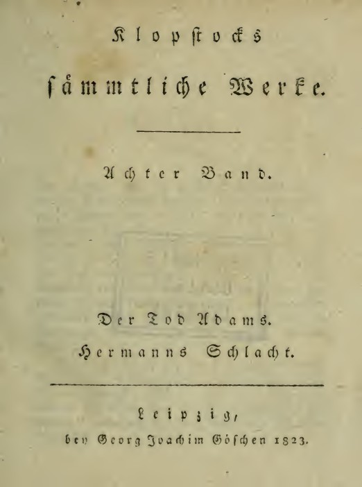 Title page